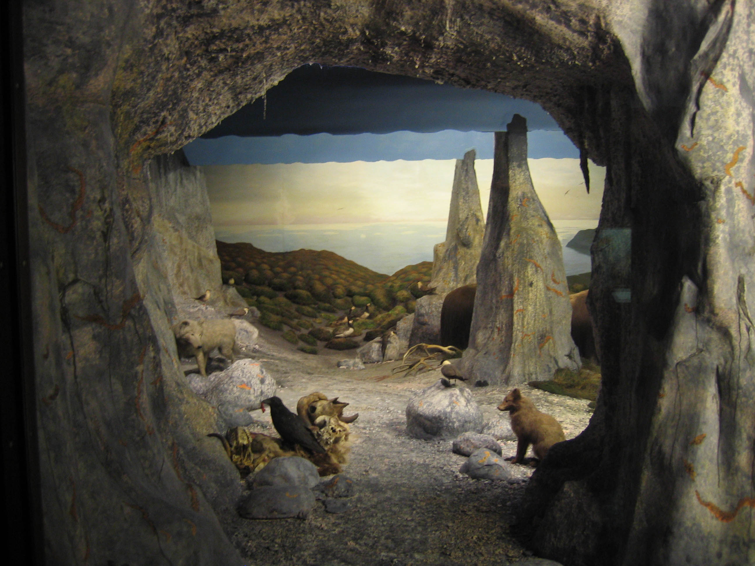 Diorama from 1893 at "Biologiska Museet" in Stockholm.